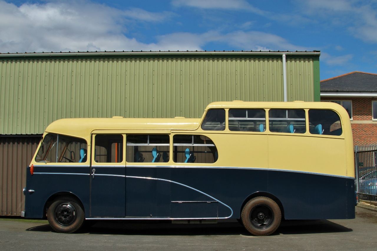 1961 Morris FF coach with Wadham Stringer body at Oxford Bus Museum, Long Hanborough, Oxfordshire. It was built for the Morris Motors works band.